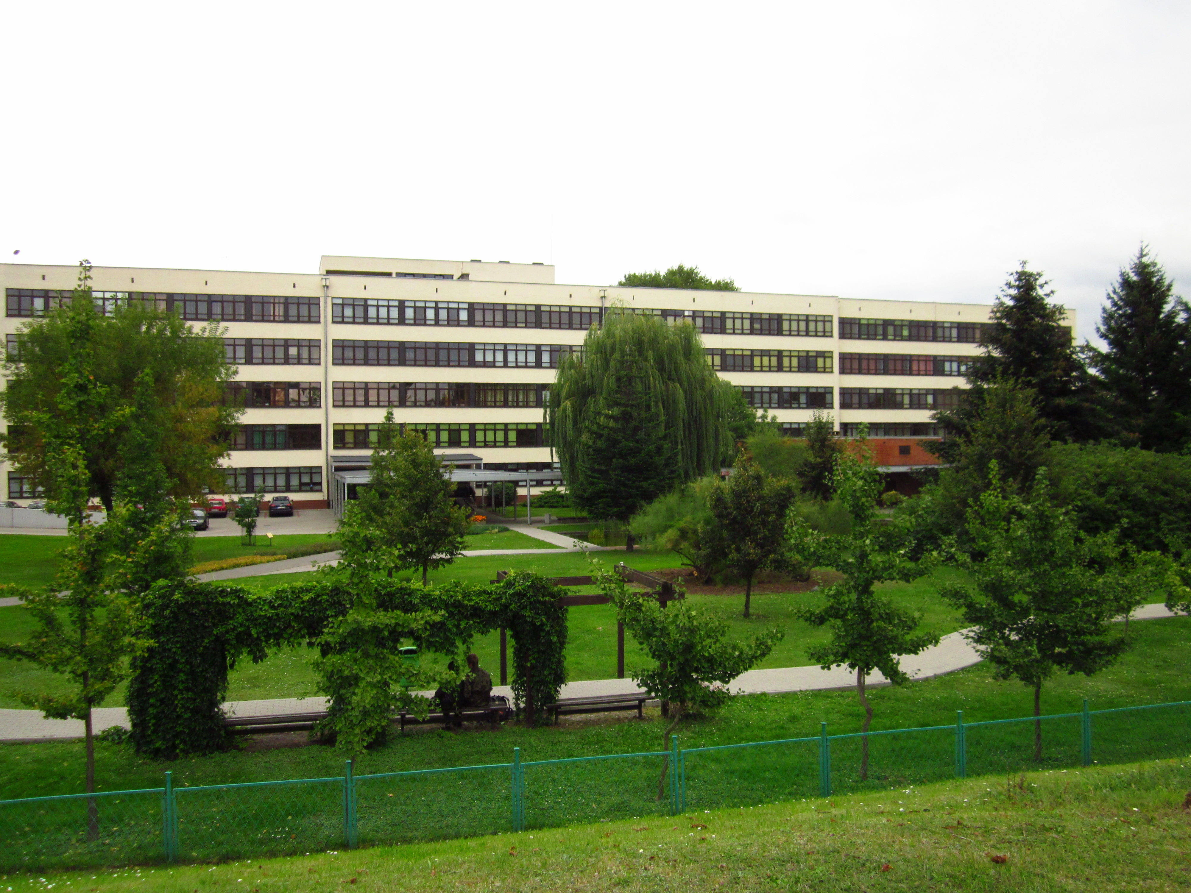 University of Life Sciences in Poznań